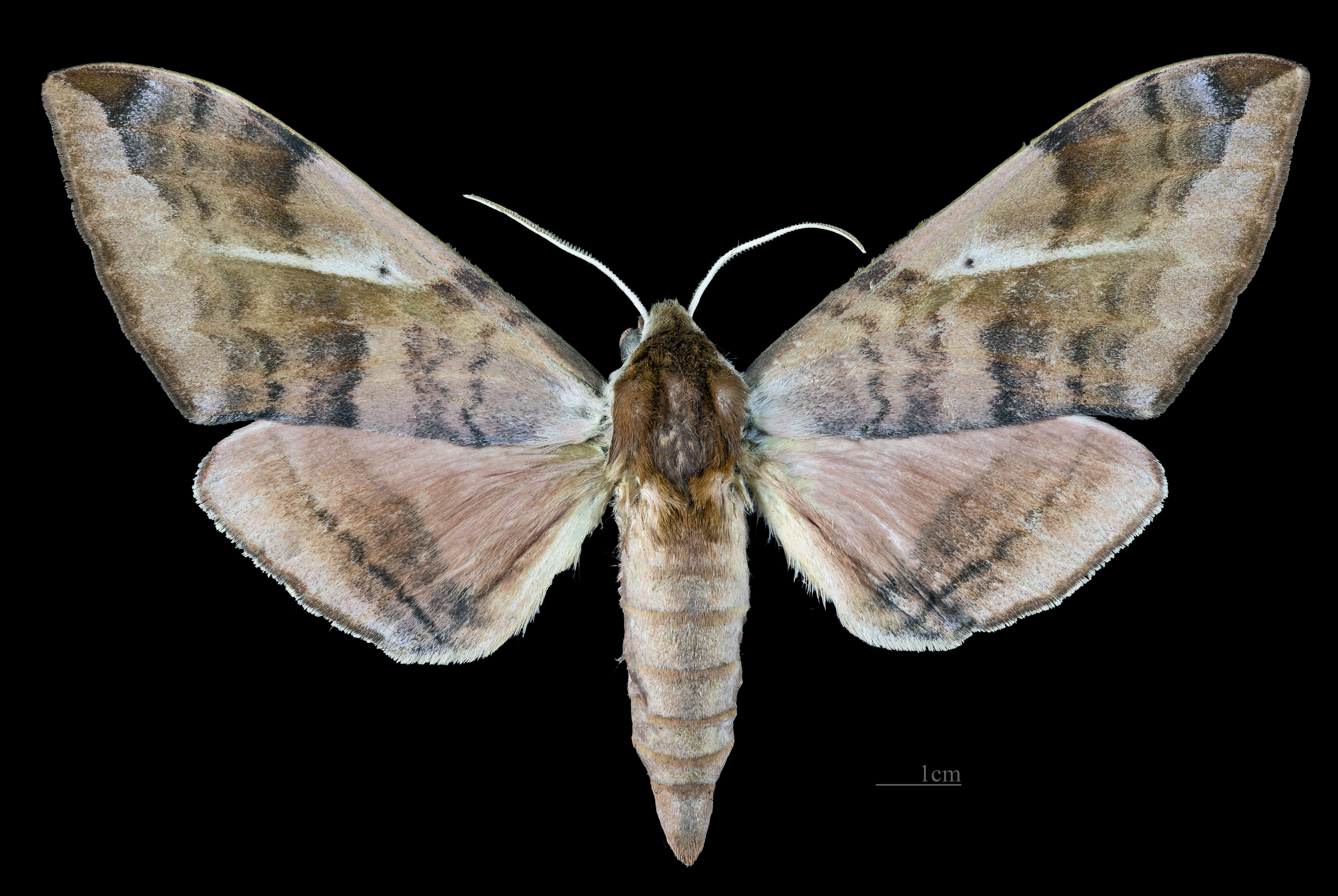 Clanidopsis exusta - Dorsal side Collection of the Mathematician Laurent Schwartz